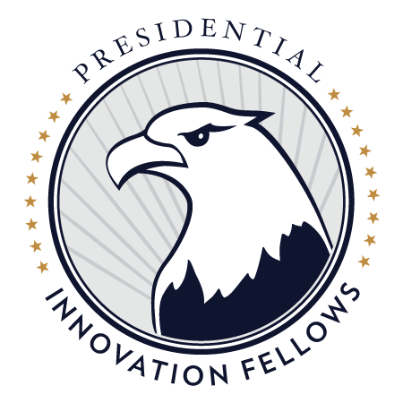 logo of the Presidential Innovation Fellows program